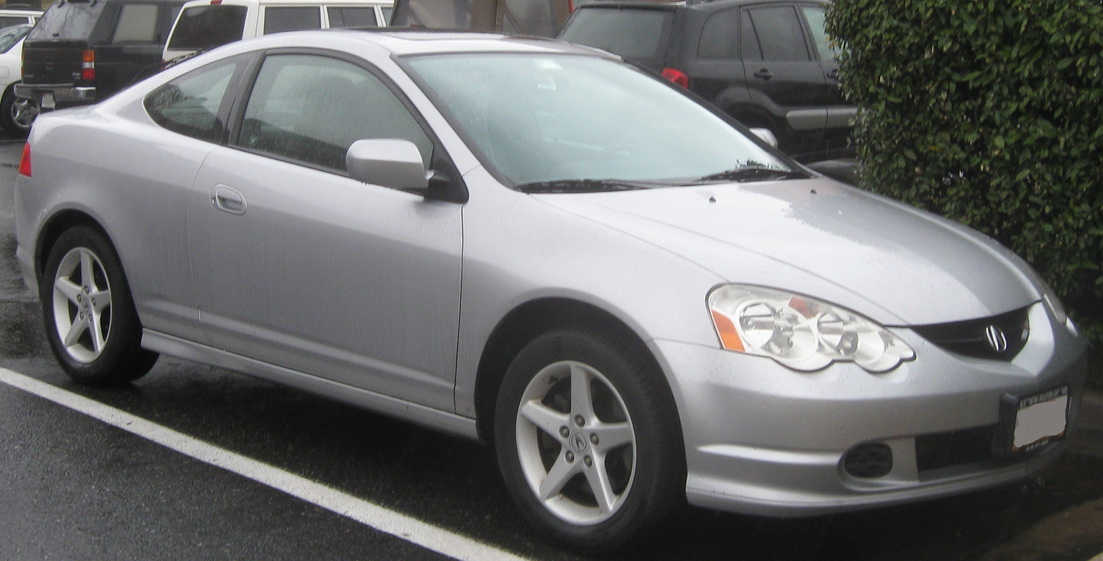 2002-2004 Acura RSX photographed in College Park, Maryland, USA.